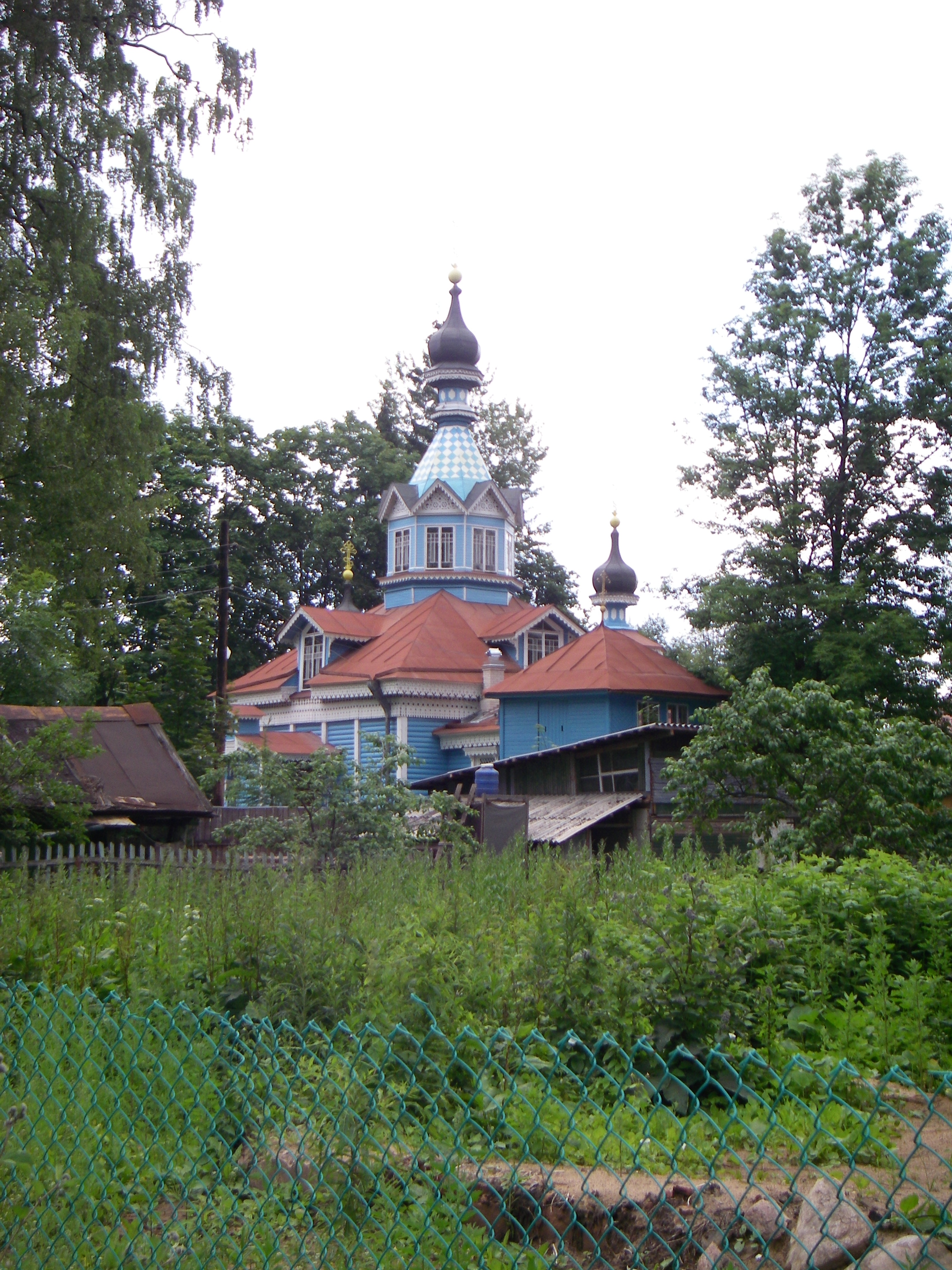 Saint Peter and Paul church in Siverskiy settlement